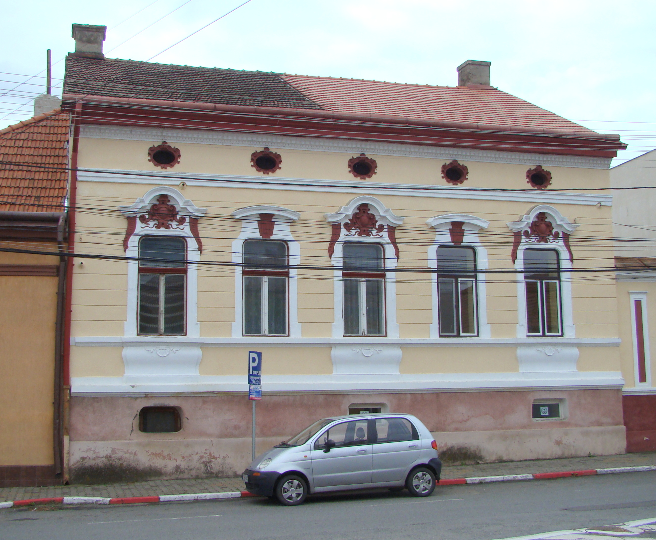 House, historic monument, in Reghin, Mihai Eminescu street, nr.5